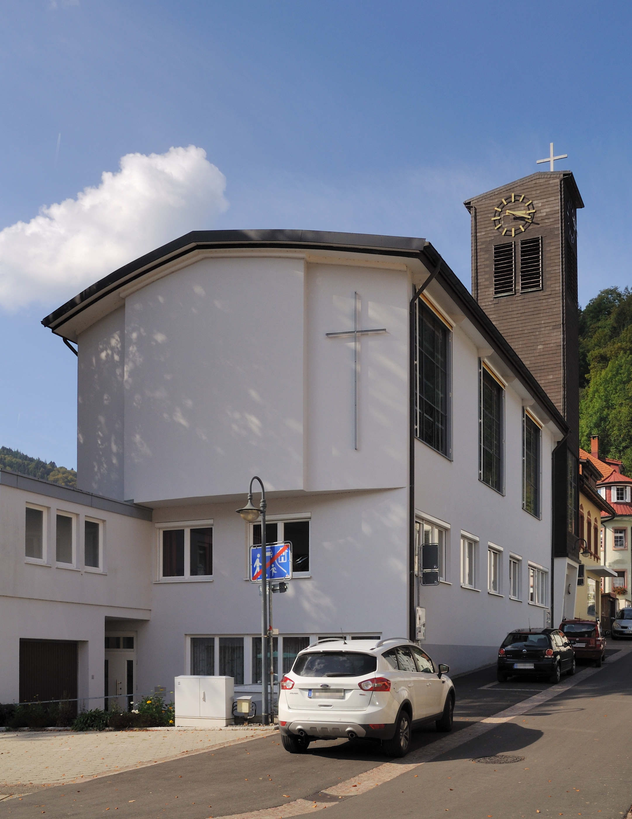 Todtnau: Christ the King churches